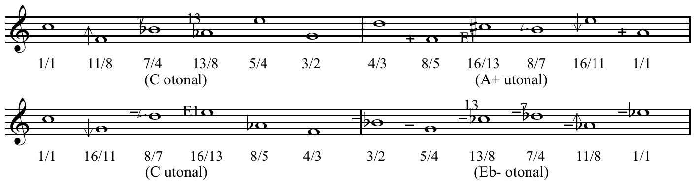 Primary forms of the just tone row from Ben Johnston's String Quartet No. 7, mov. 2. Each permutation contains a just chromatic scale, however, transformations (transposition and inversion) produce pitches outside of the primary row form, as already occurs in the inversion of P0. Note: I've used "E1" instead of an upside down "13".